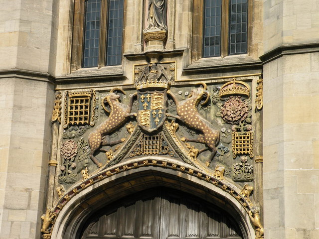 Christ's College - detail The arms of the founder Lady Margaret Beaufort are supported by Yales, mythical beasts related to mountain goats.